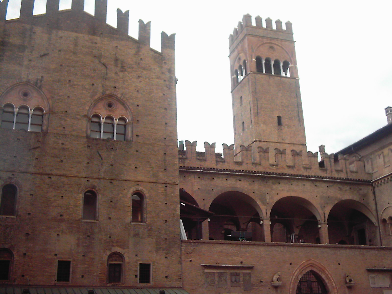 Major Place, Bologna